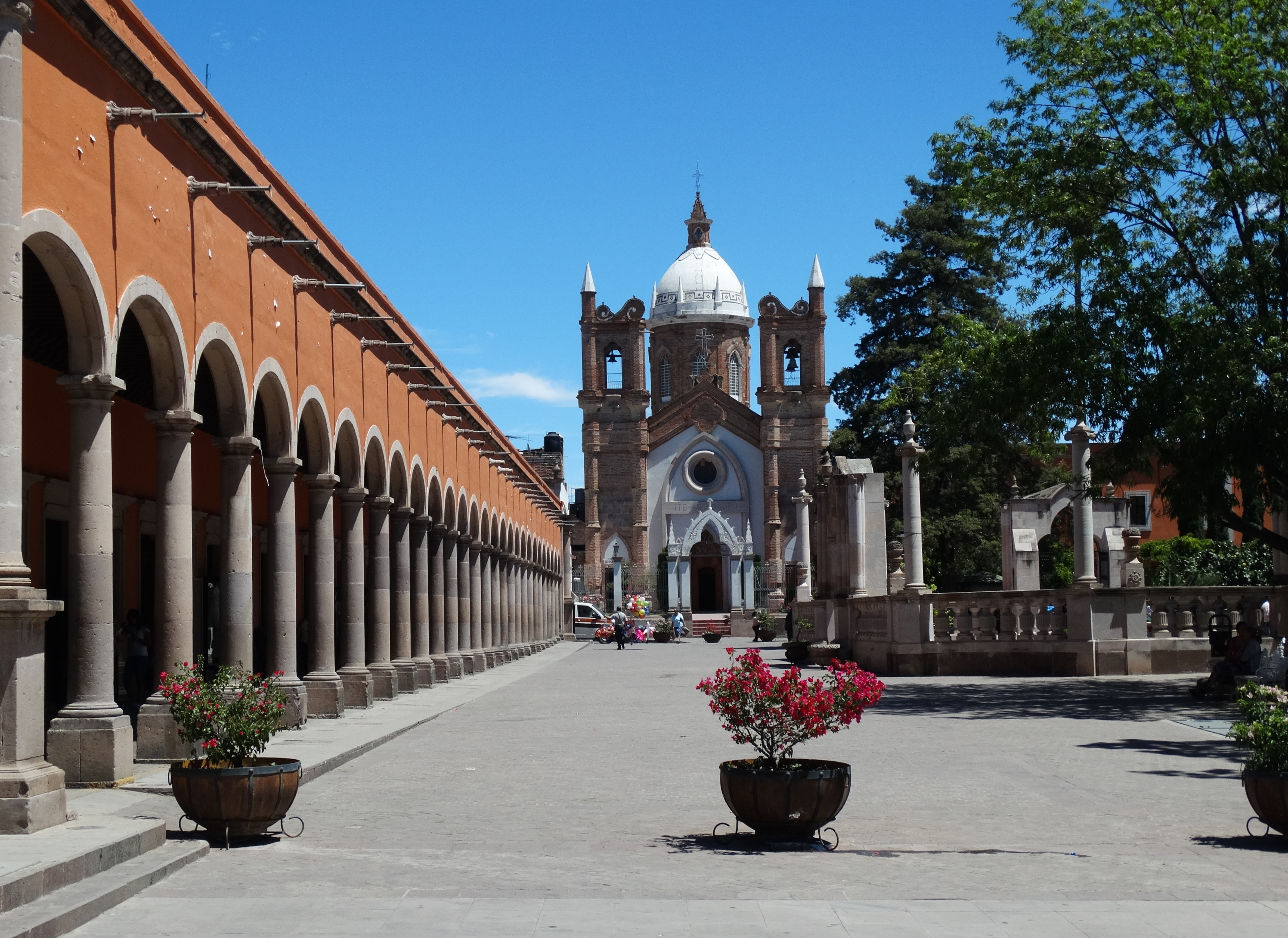 Parian y Templo de San Jose